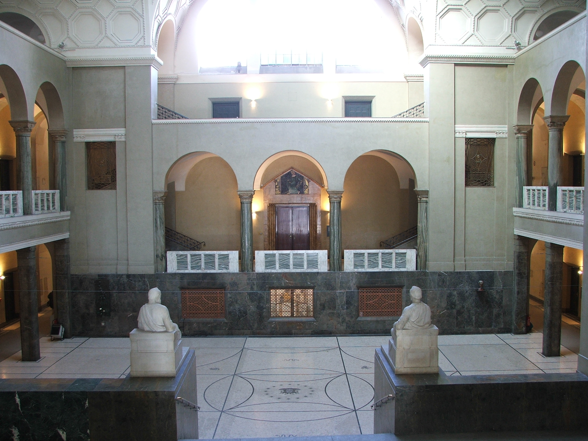 In the Munich University